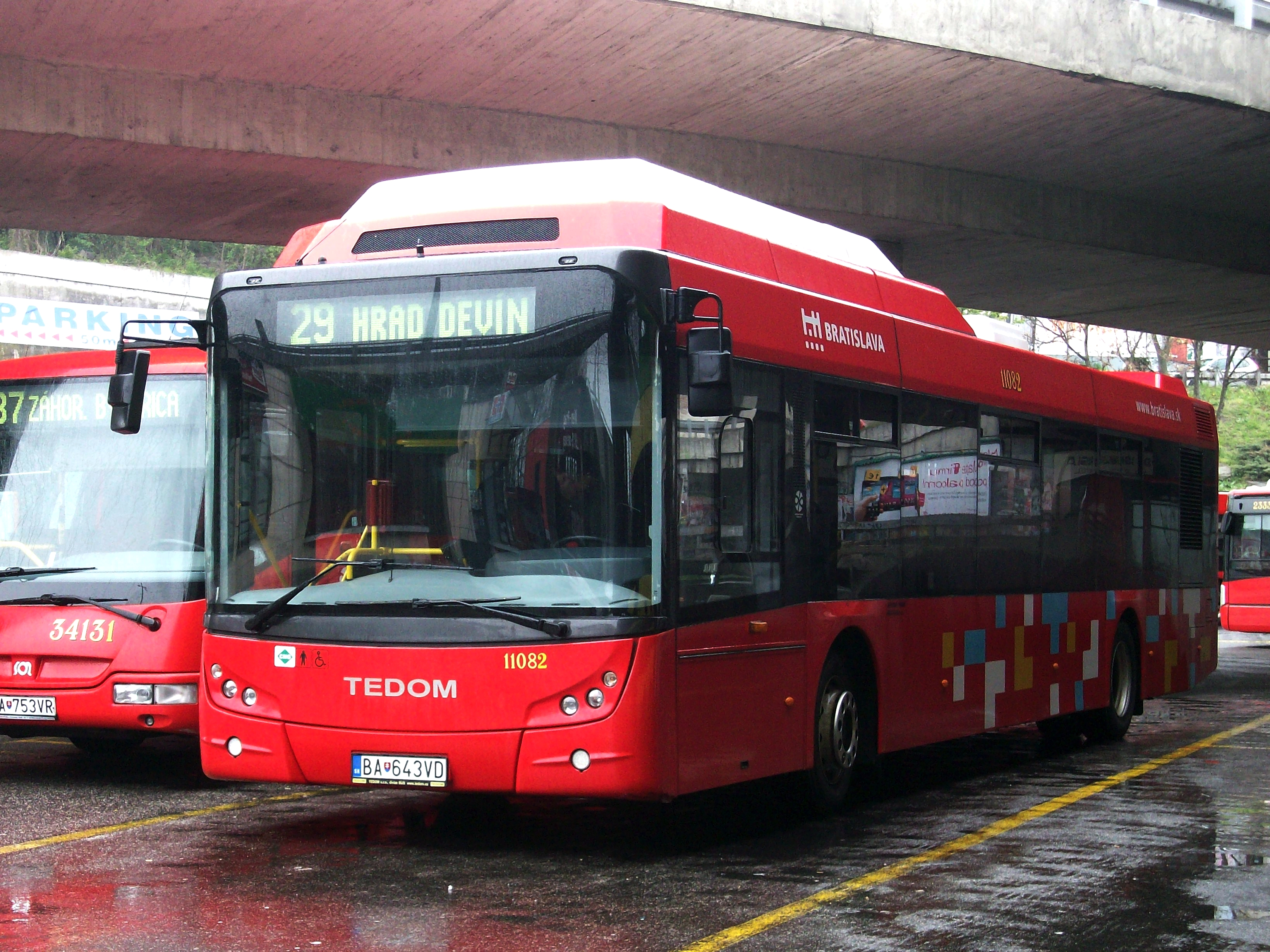 Tedom C 12G, Bratislava